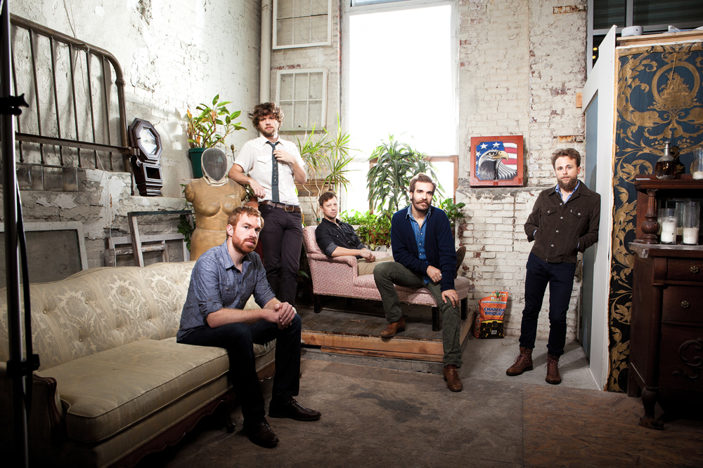 American band Red Wanting Blue, 2013